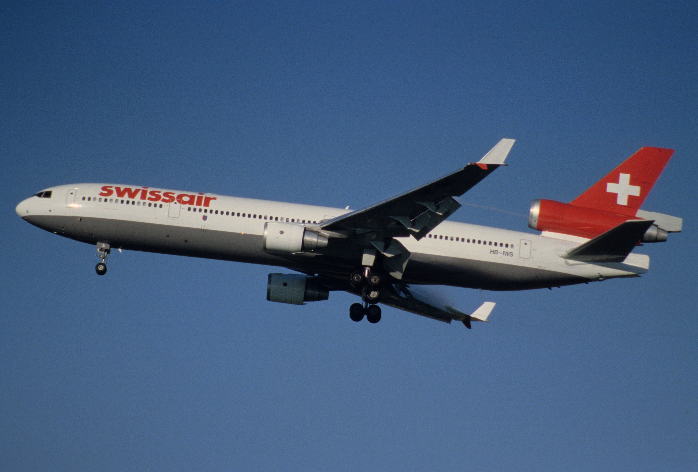 After Swissair's demise this MD-11 was stored at Mojave for three years. In 2005 the trijet was converted to a freighter and then served Malaysian carrier Transmile for three years (9M-TGR). Since 2008 the MD-11 is reported stored...